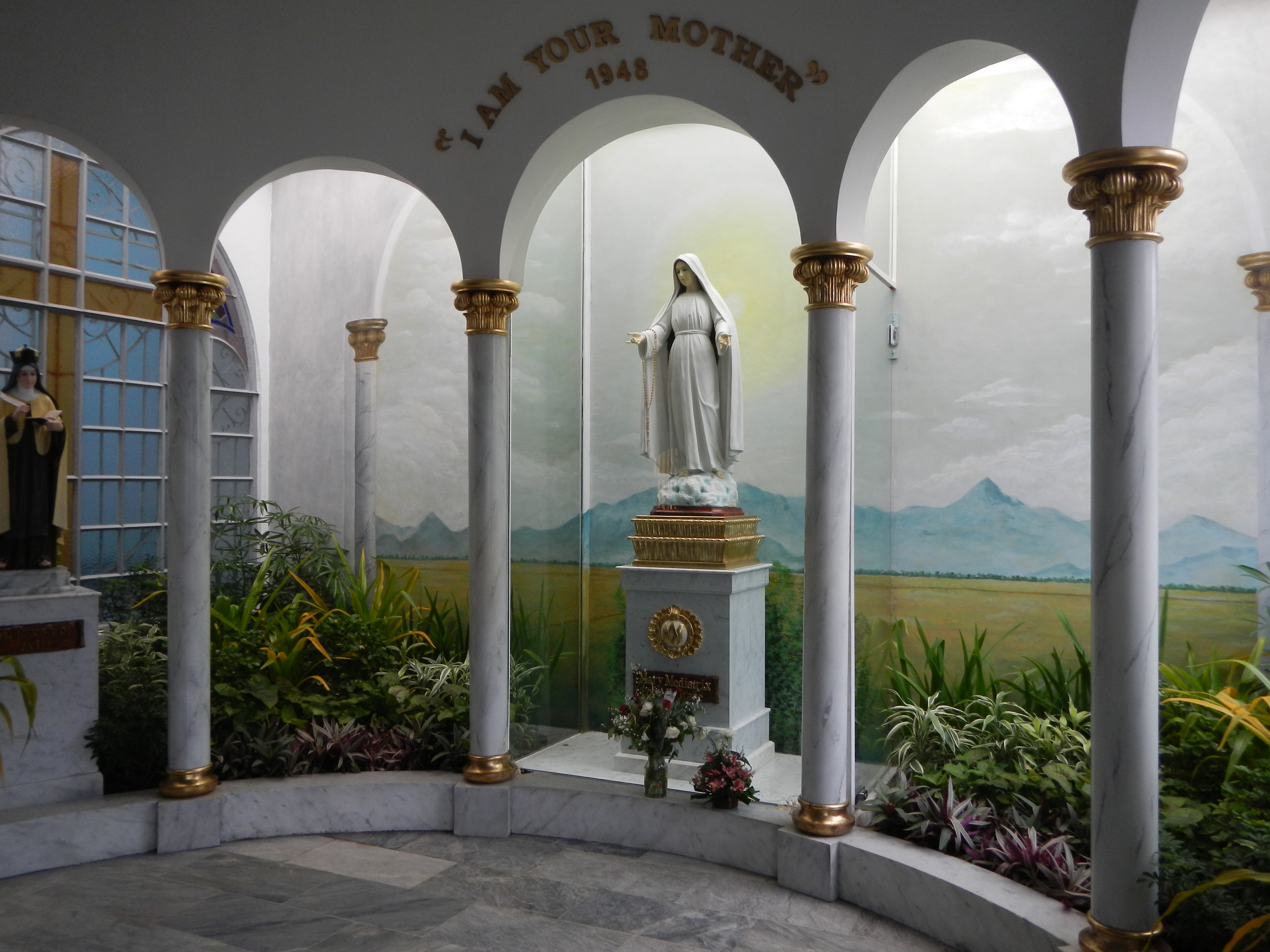 Our Lady Mediatrix of All Graces [1] Our Lady of Mediatrix of All Graces (Spanish: Nuestra Senora de la Medianera de toda gracia